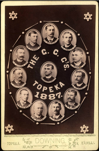 Team card of the 1887 Topeka Golden Giants.